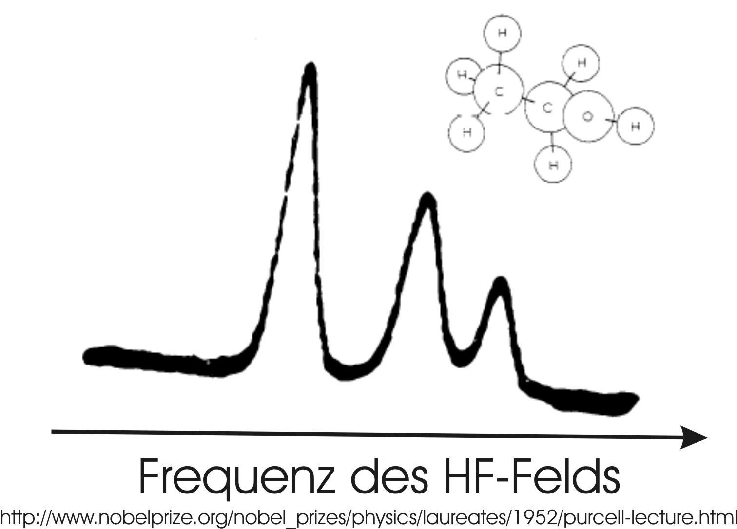 NMR spectrum of ethanol from 1951 showing chemical shift